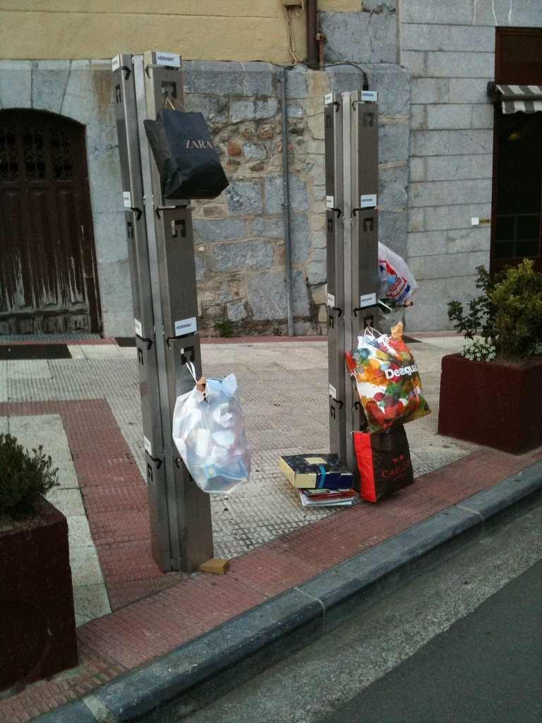 Kerbside collection in Hernani, Basque Country.